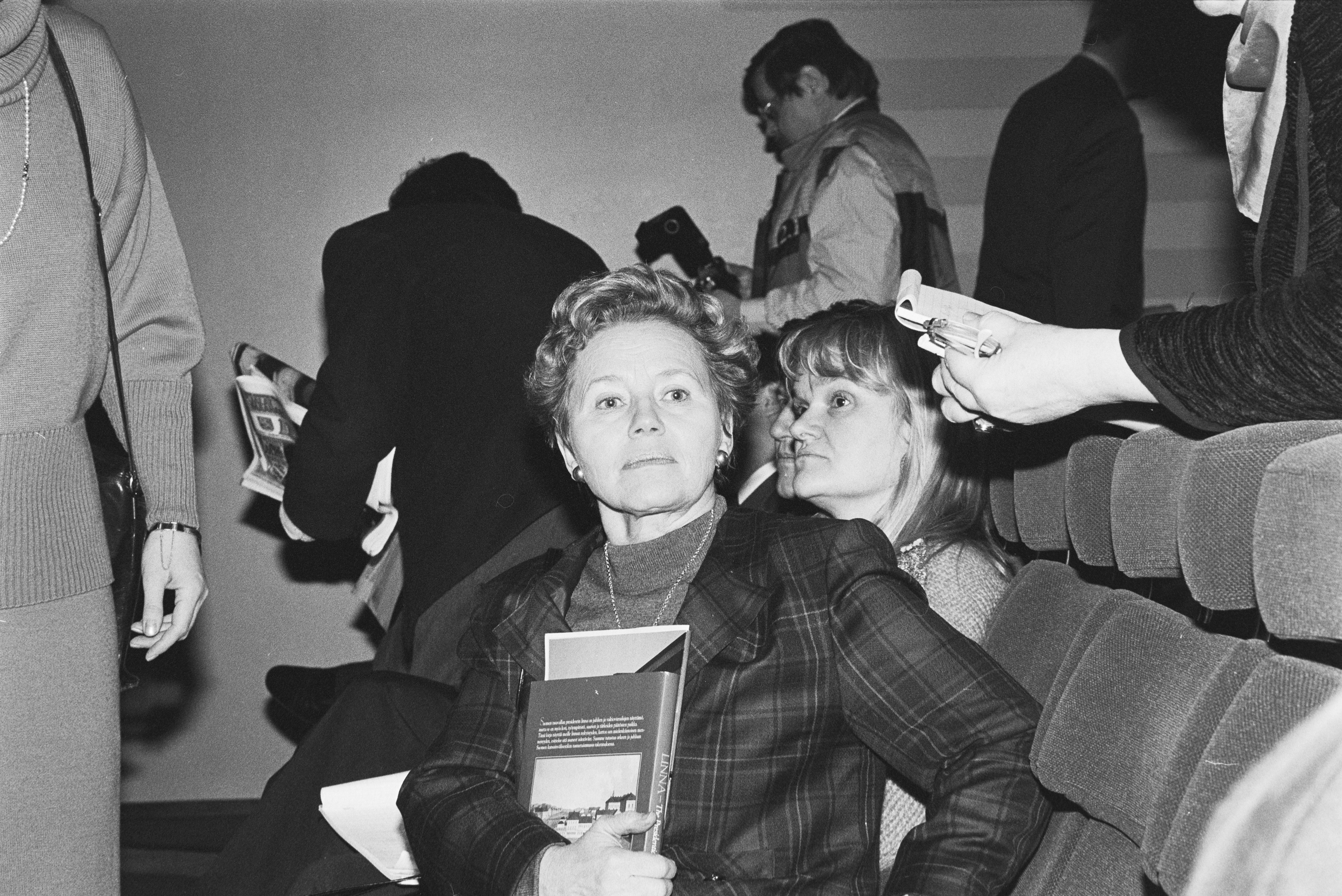 Photograph of Mrs. Eeva Ahtisaari (1936–), the First Lady of Finland in 1994–2000.